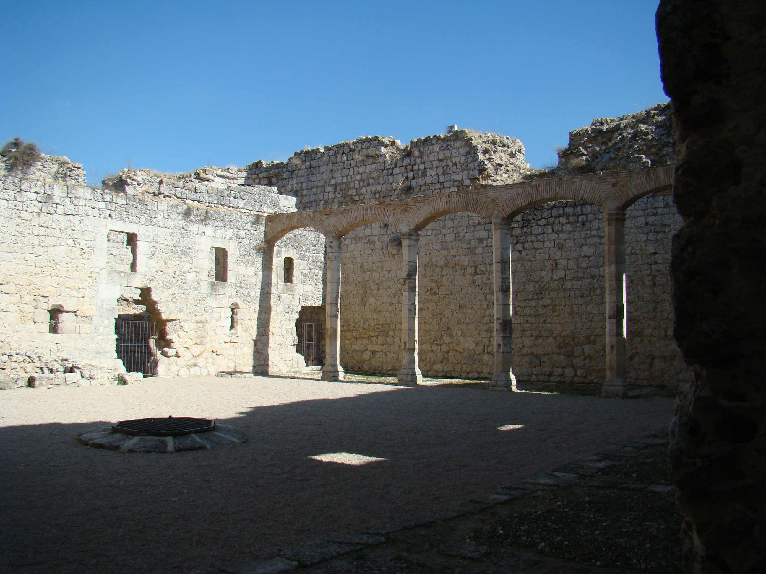 Bailey of the castle of Portillo, in the municipality of Portillo, Valladolid, Spain. The building in sight dates back to the 15th century In the center you can see the entrance of the well. The last family who lived there was the Counts of Benavente.